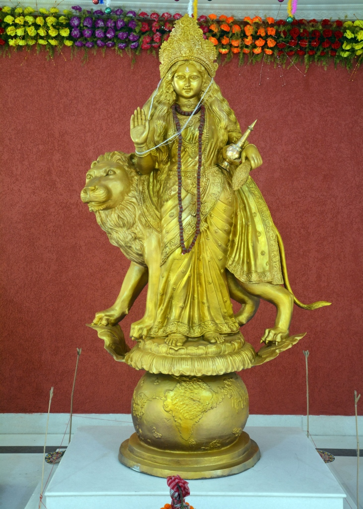 Bharat Mata at Jatiya Shaktipeeth, Kolkata